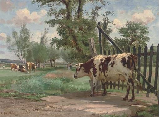 Cows Grazing in a Water-meadow